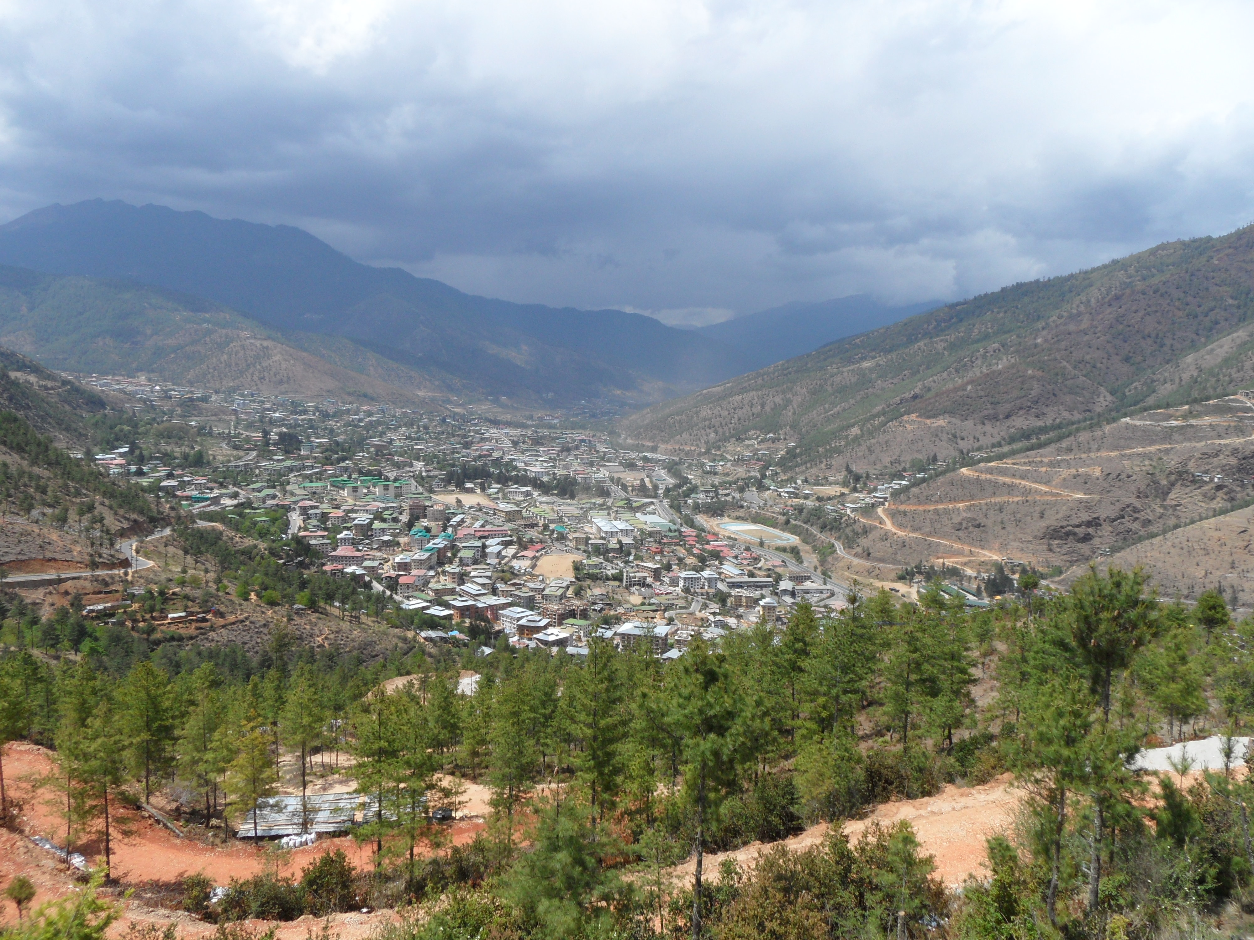 View of Thimphu as seen from Buddha point